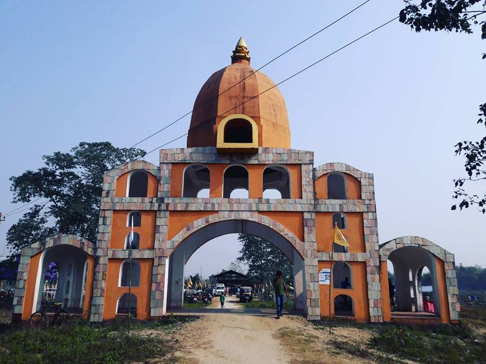 Habung Entrance of the fifth capital of the Ahom kingdom